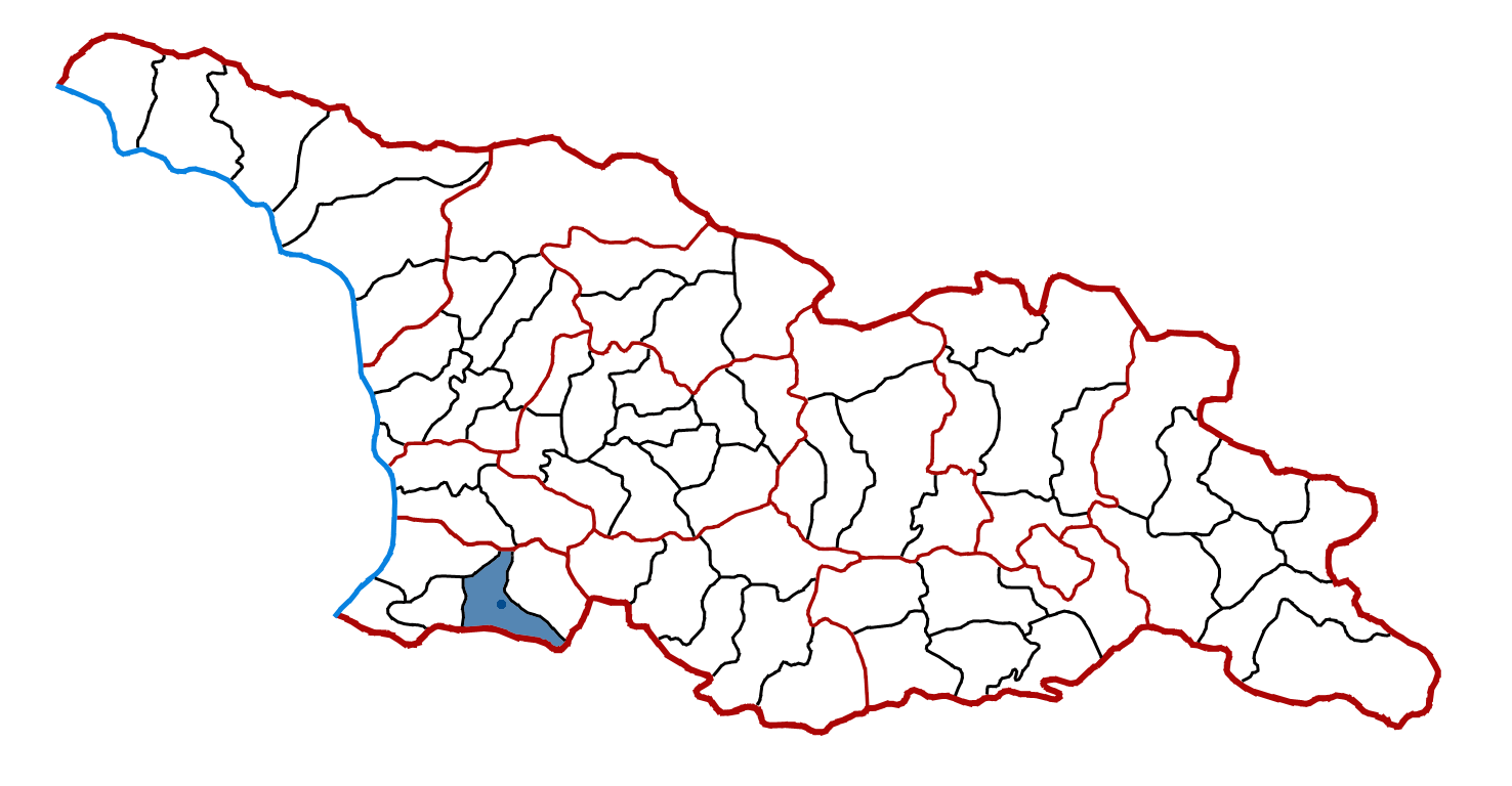 Location of Shuakhevi district in Ajaria/Georgia